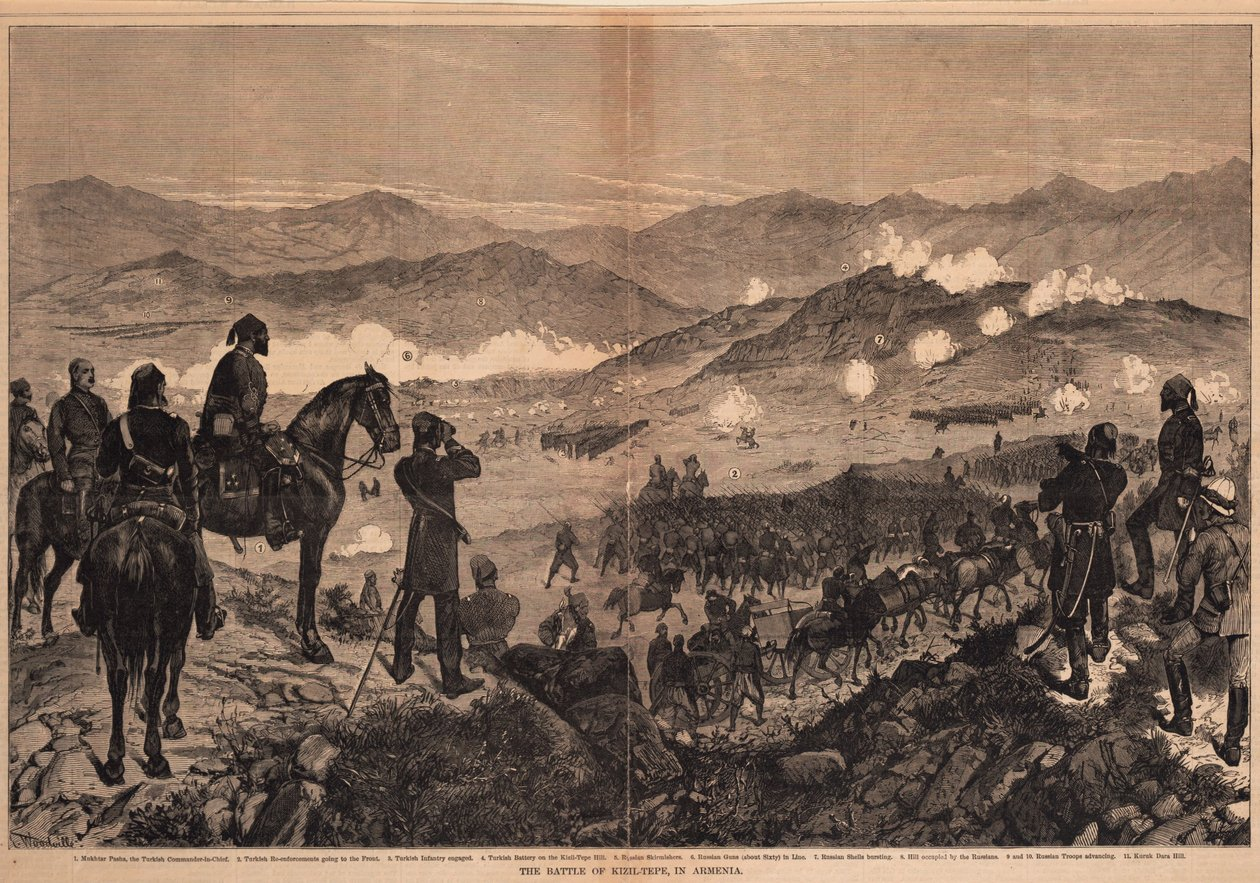 «THE WAR IN ARMENIA: BATTLE OF KIZIL-TEPE.» A Double Page From The Illustrated London News Date If Known In Title, An Illustrated Weekly Newspaper Weeks Date As Shown On Top Of Page, The Size Of Each Page Is Approx ( injcluding margins as shown )imately 22 X 16 Inches (560X410).